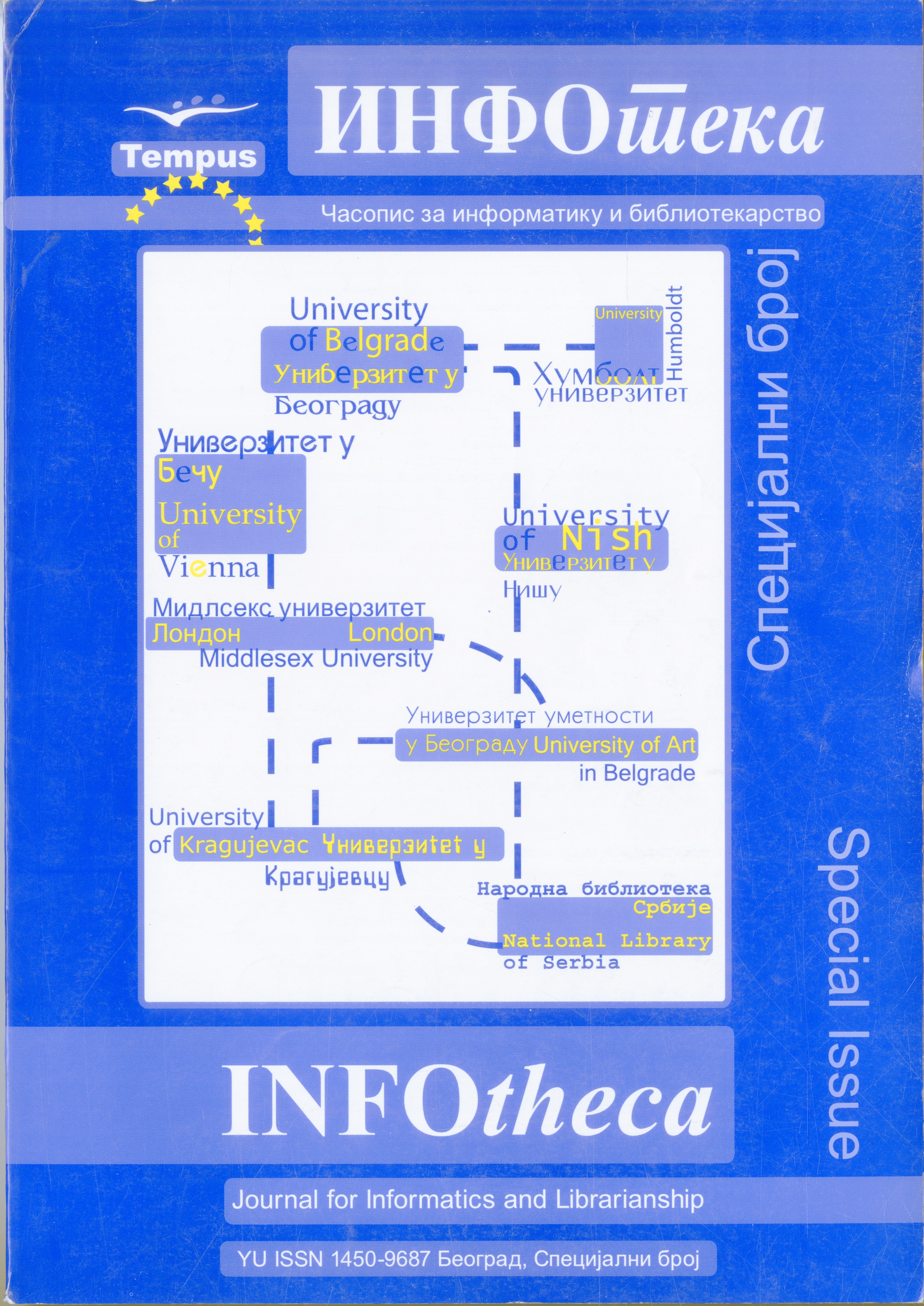 Cover of journal